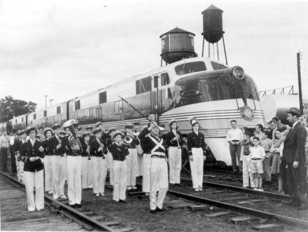 Local call number: Rc10733 Title: Arrival of the Orange Blossom Special train: Plant City, Florida Date: December 1938 Physical descrip: 1 photoprint; b&w; 8 x 10 in. Series Title: Reference collection General note: This was the arrival of the first diesel-powered passenger train in the Southeast. Repository: State Library and Archives of Florida, 500 S. Bronough St., Tallahassee, FL 32399-0250 USA. Contact: 850.245.6700. Persistent URL